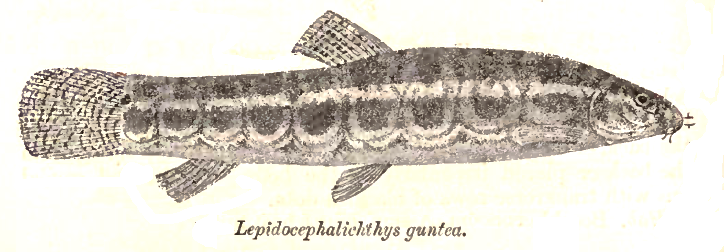 Lepidocephalichthys guntea (Hamilton, 1822)